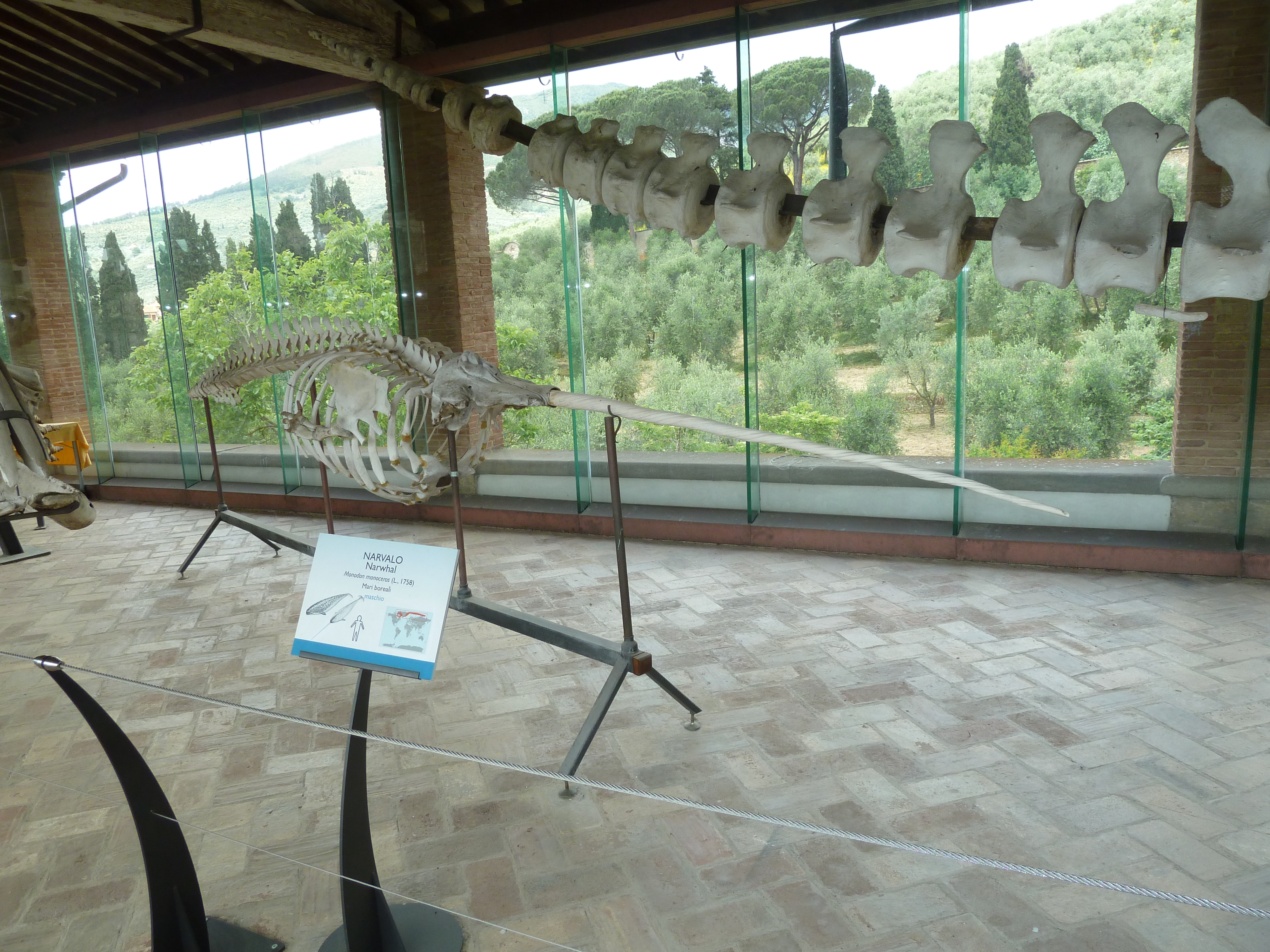 Narwhal Monodon monoceros